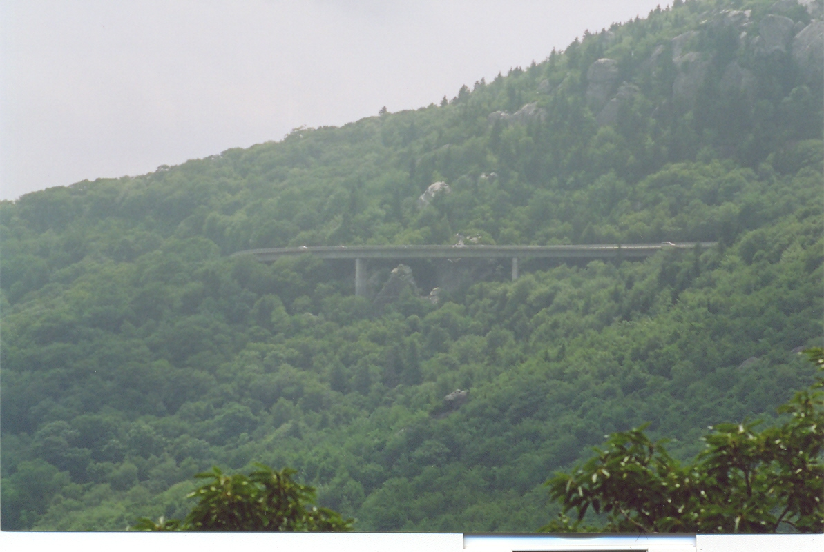 Linn Cove Viaduct Photo by Jan Kronsell, 2002.